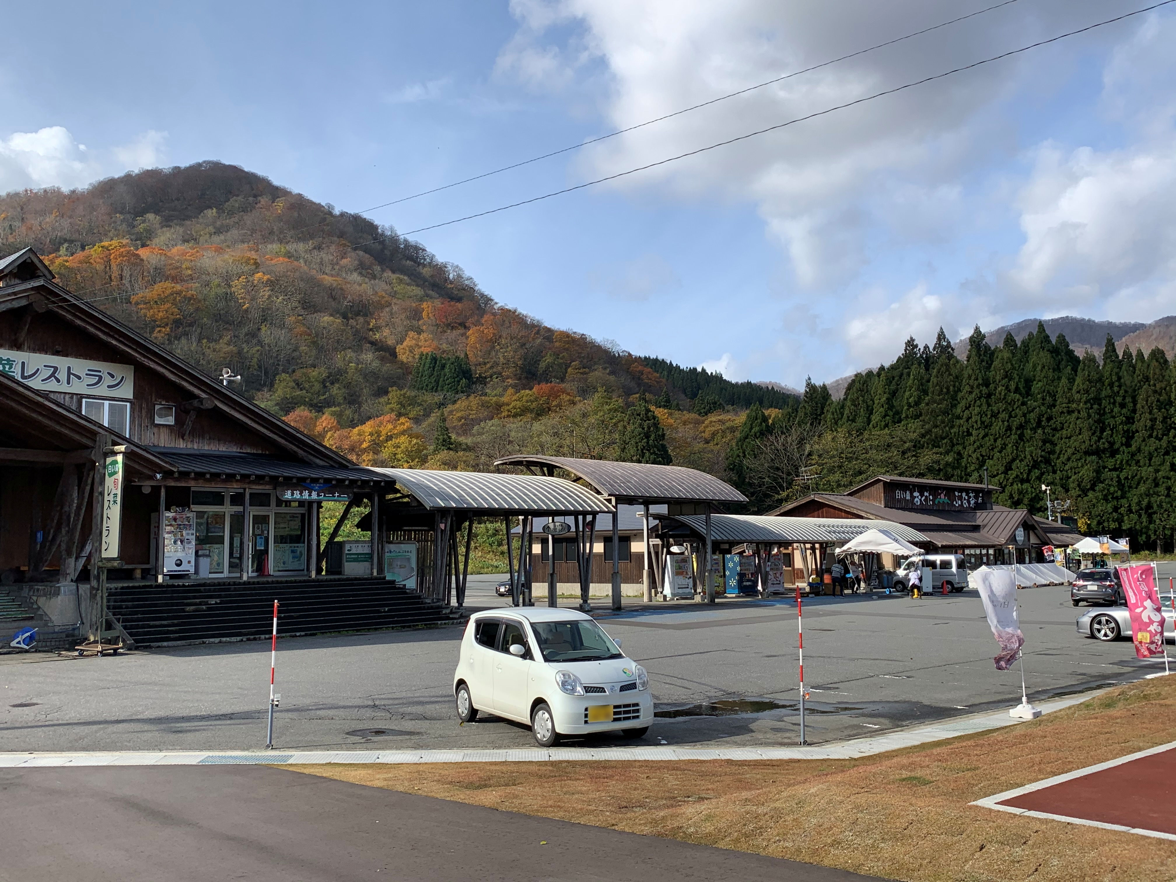 Shiroimori Oguni, Michi no Eki (Roadside Station), Yamagata, Japan. Took photo in November 2019.